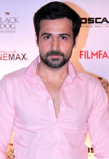 Emraan Hashmi unveils Filmfare magazine's latest issue